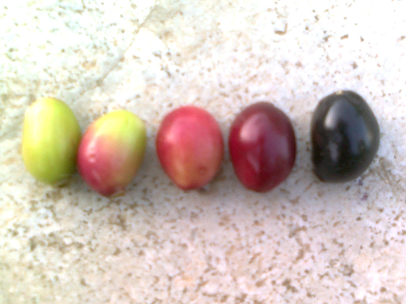 Jambhul (Syzygium cumini) fruits at Chinawal village, India